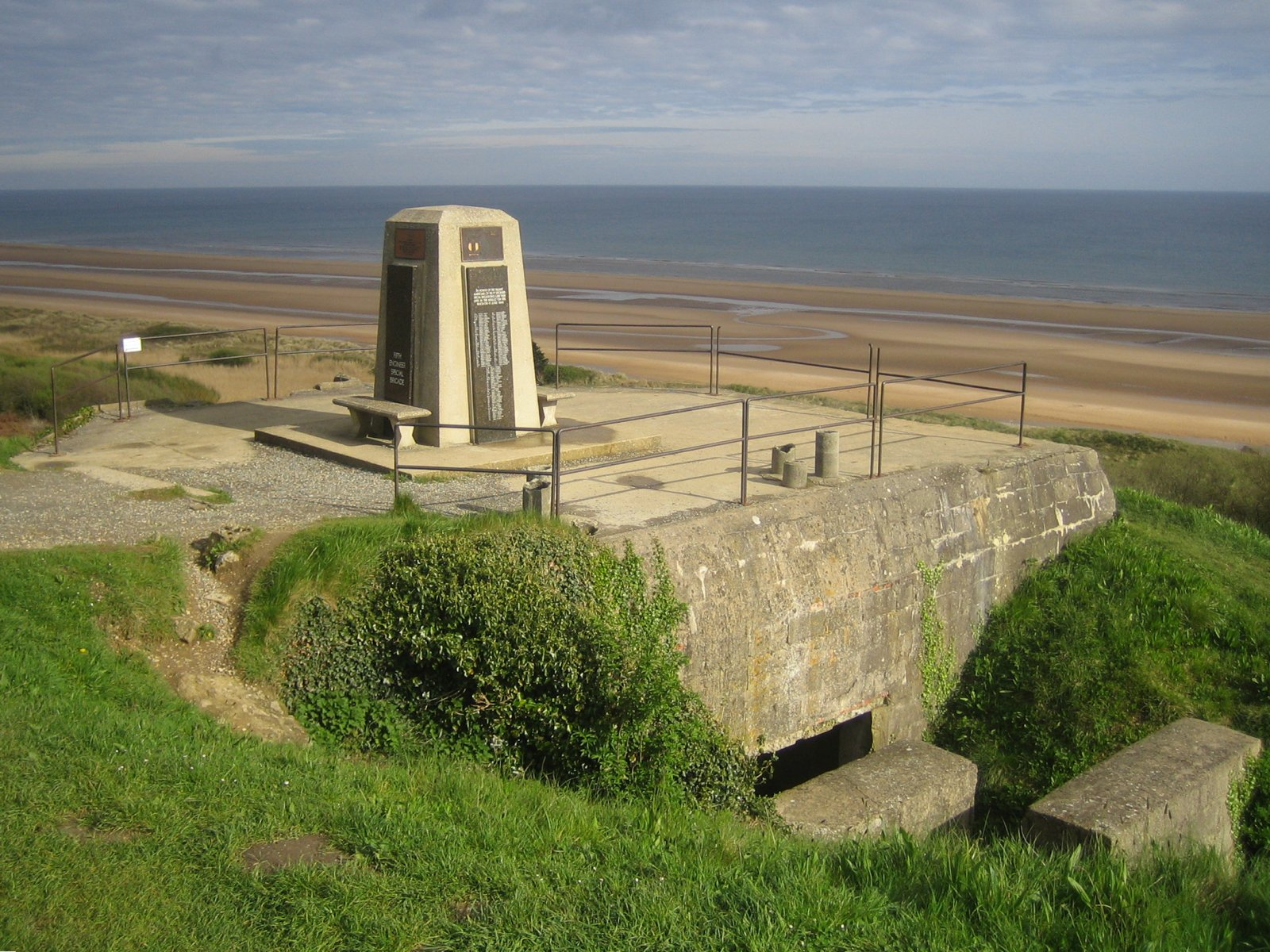 German bunker at Omaha beach, Normandy.